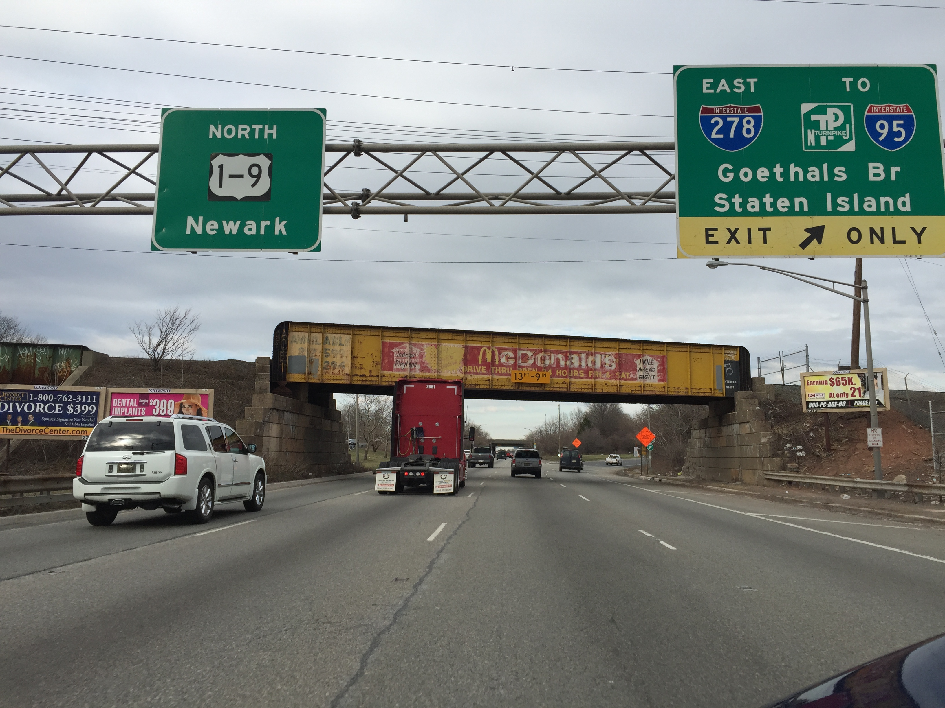 View north along Edgar Road (U.S. Route 1 and U.S. Route 9 (U.S. Route 1&9)) at the west end of the Union Freeway (Interstate 278) in Linden, New Jersey